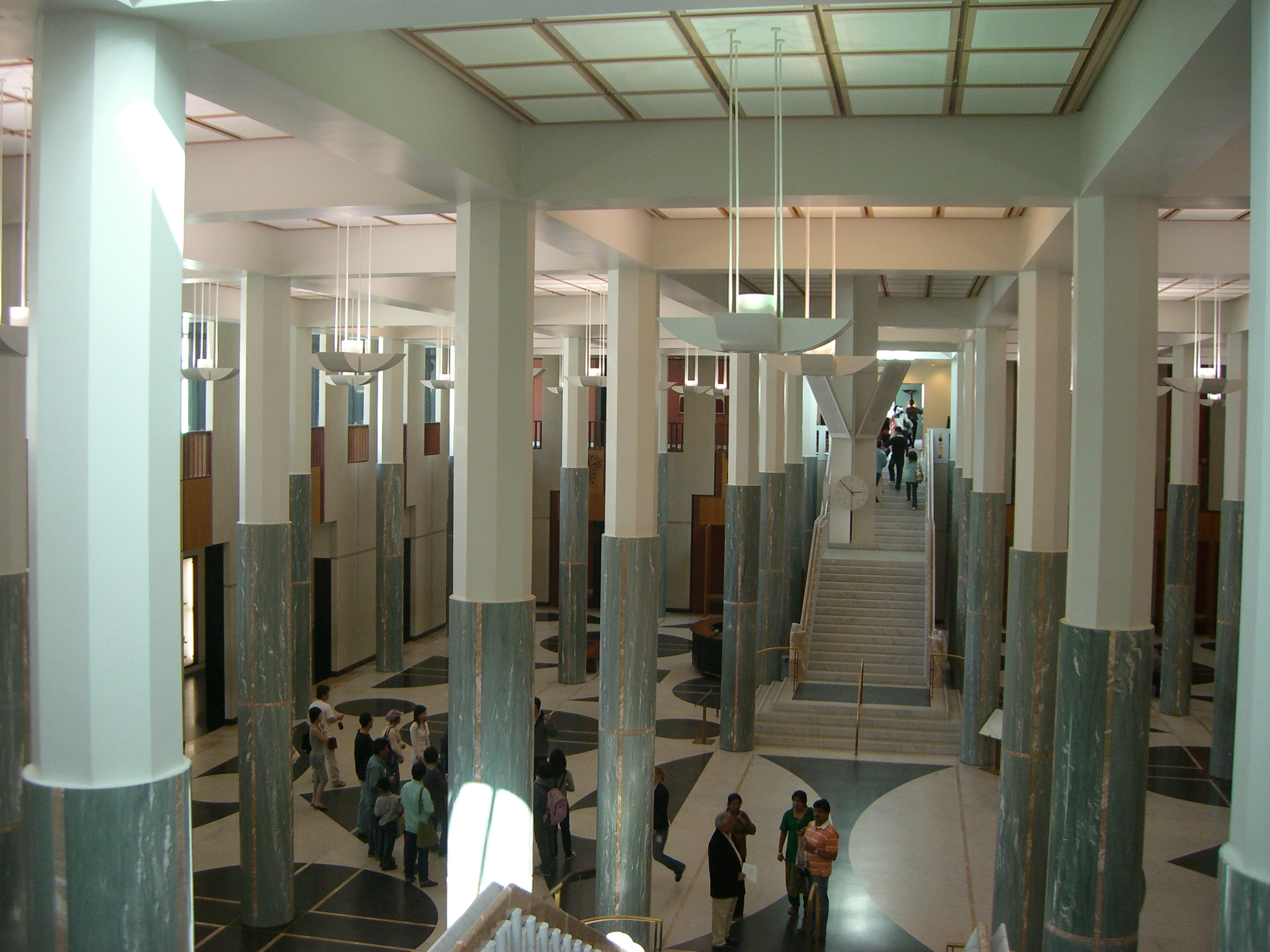 Foyer of the Australian Parliament